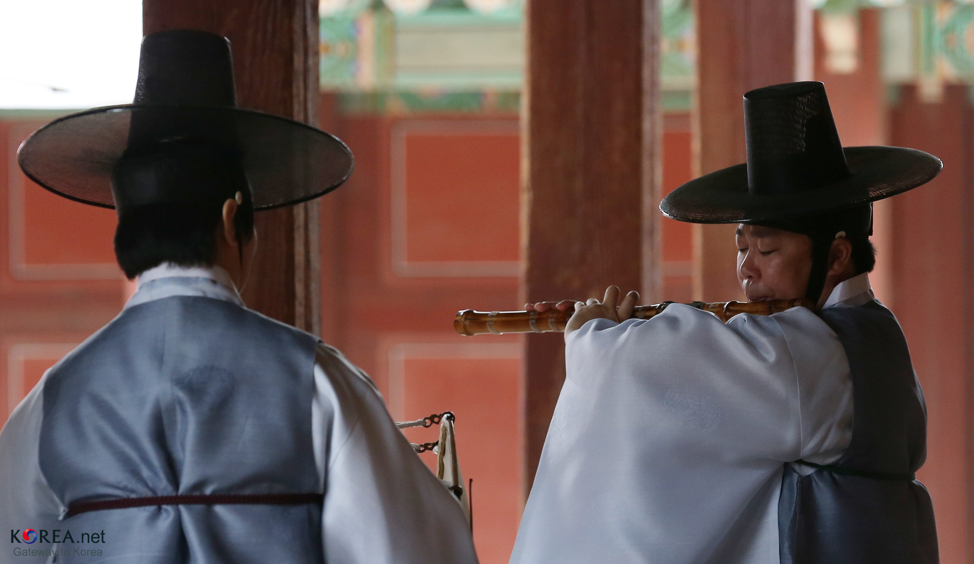 Morning of Changgyeonggung The annual early-morning gugak concert initiated by the National Gugak Center 2013.08.17. Changgyeonggung, Seoul -Related Articles- Early birds flock to palace on Saturday morning Ministry of Culture, Sports and Tourism Korean Culture and Information Service ( JEON HAN 이른 아침 고궁에서 국악에 빠지다 국립국악원 고궁 아침 국악 공연 ‘창경궁의 아침’ ‘이른 아침 고궁에서 국악에 빠지다’ 창경궁(昌慶宮), 서울 문화체육관광부 해외문화홍보원 코리아넷 전한